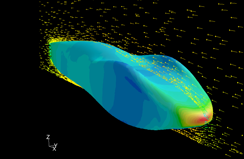 Simulation CFD de l'écoulement autour d'une éco-mobile.